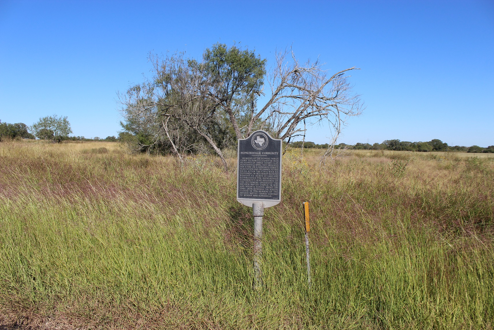 Site of Hopkinsville. Once a thriving pioneer community. Founded by D. S. Hopkins (1819-1917), farmer who settled here in 1852. Located in farm-ranch area. Herds started here, bound for Chisholm trail. Abandoned 1873 when the citizens moved south and founded town of Waelder on newly built railroad. #2562